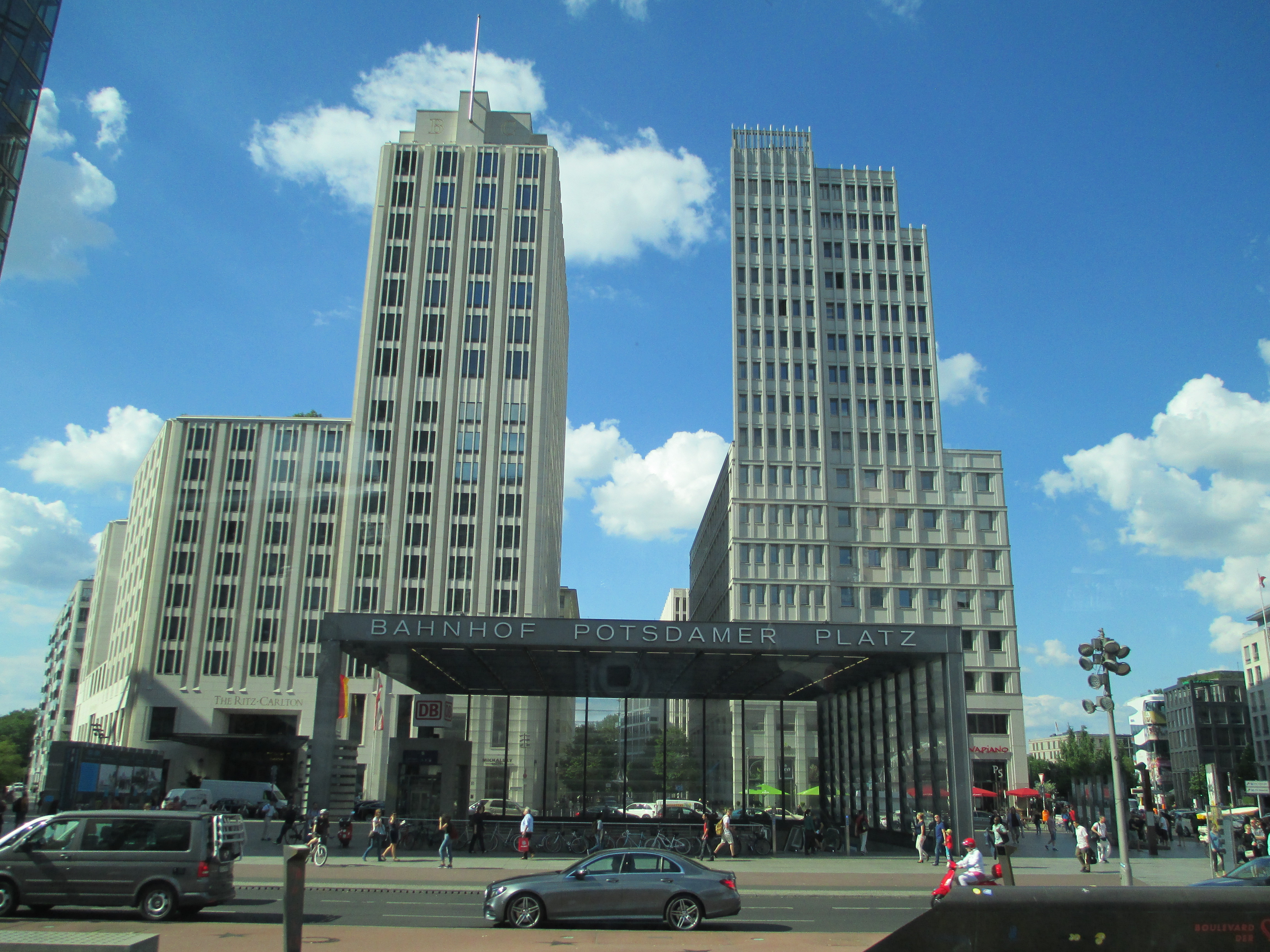 Entrance to Potsdamer Platz train station, Berlin, Germany. In the background, the Beisheim Center (on the right) and the Ritz-Carlton Hotel (on the left).